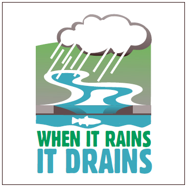 Label or Sticker, "When It Rains, It Drains"